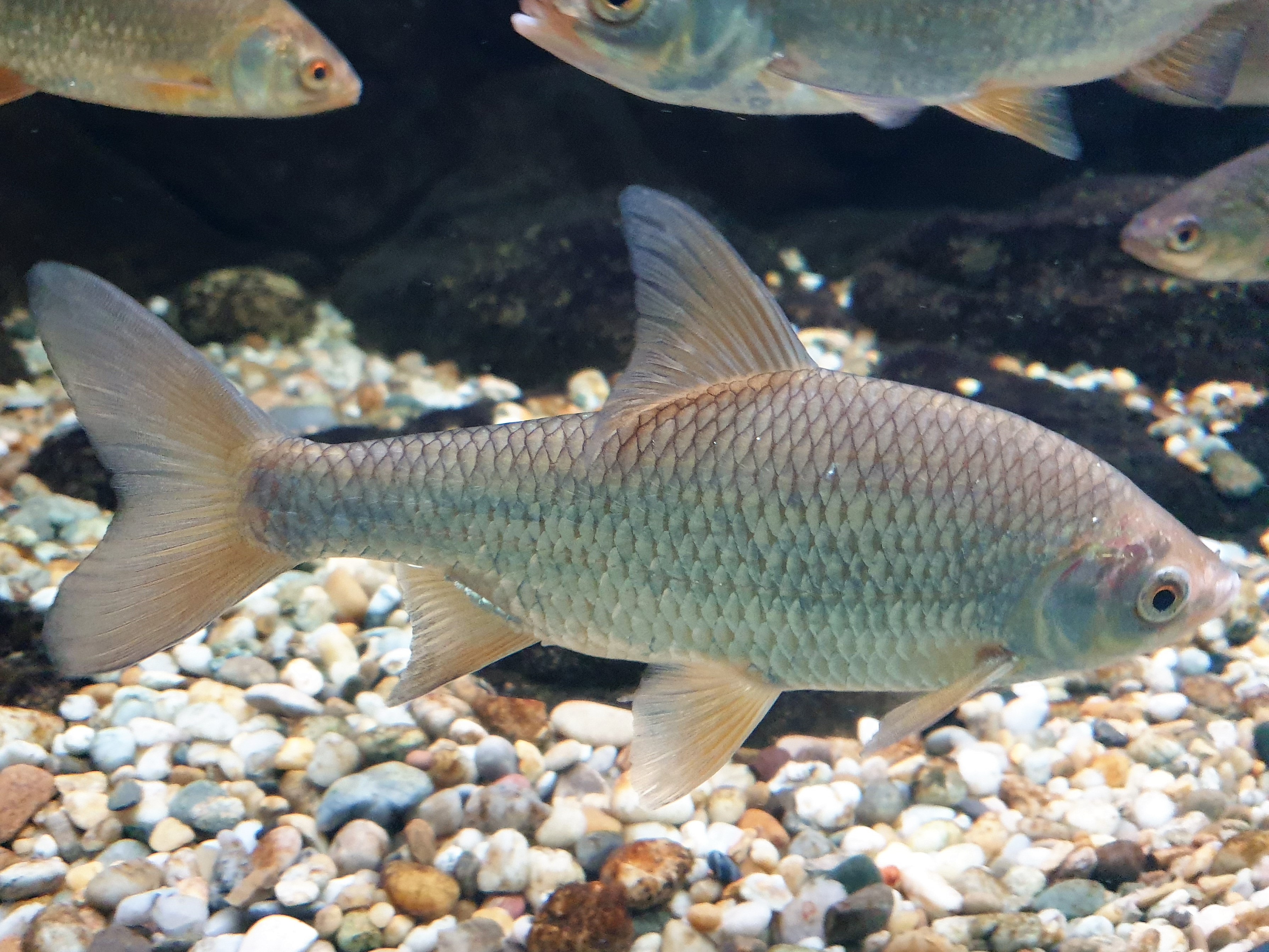 Common roach (Rutilus rutilus) at the Bodorka Balaton Aquarium in Balatonfüred, Hungary.